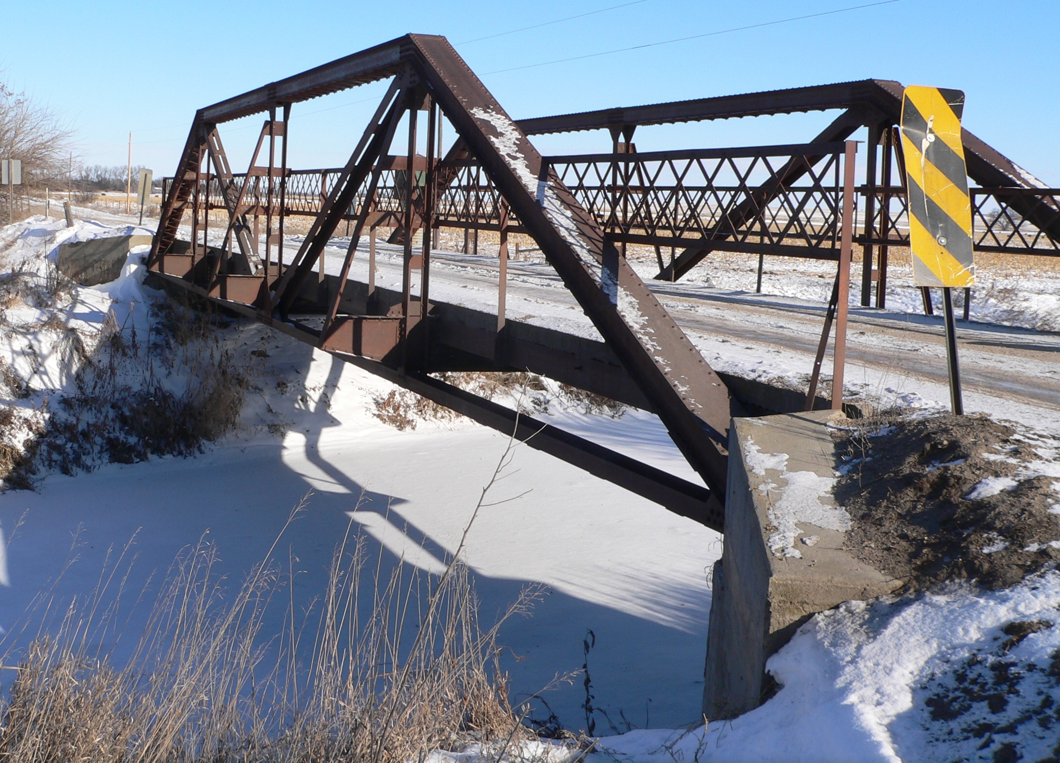 Bridge on the Meridian Highway in Pierce County, Nebraska; seen from the southwest. The bridge now carries county road 552 across the North Fork of the Elkhorn River. It is part of a 4.5-mile (7.2 km) segment of the highway that is listed in the National Register of Historic Places. The bridge was constructed in 1915 by the Canton Bridge Company; it features Warren pony trusses.